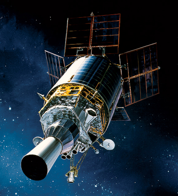 Defense Support Program: DSP satellite in space A painting of a Defense Support Program satellite from the U.S. Air Force Art collection. Primary function: Detection Dimensions: Diameter: 22 ft. Height: 32 ft. 9 in. with solar panels deployed Weight: 5250 lbs Power: Solar panels generating 1485 watts Orbit: 22 300 miles